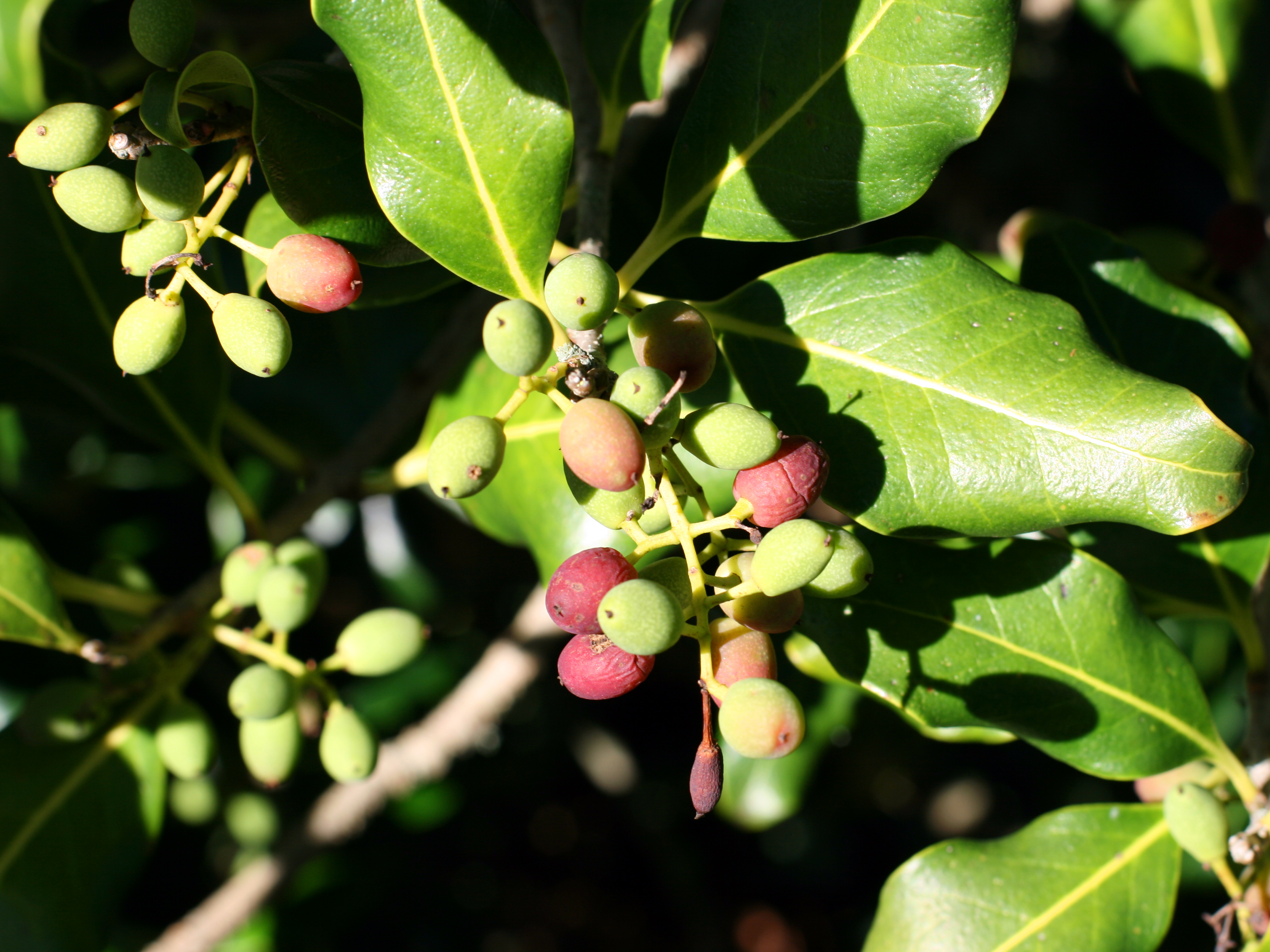 fruit of Nestegis apetala, Coastal Maire tree, Auckland, New Zealand